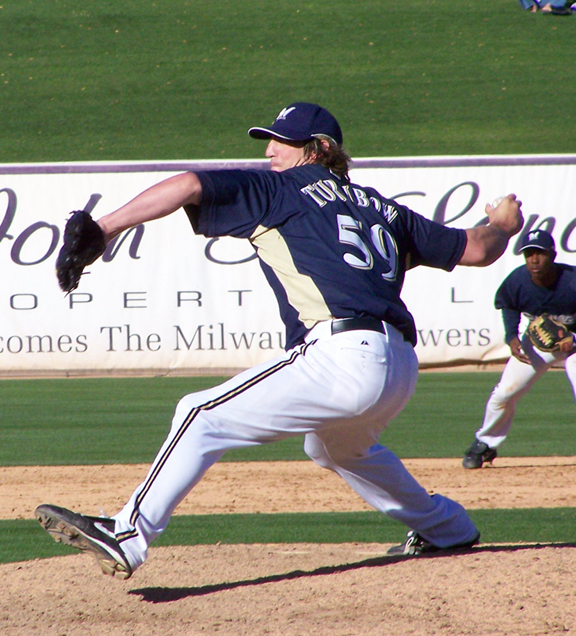 Derrick Turnbow pitches to the Oakland A's during the first Spring Training game in 2007, Marysville, AZ